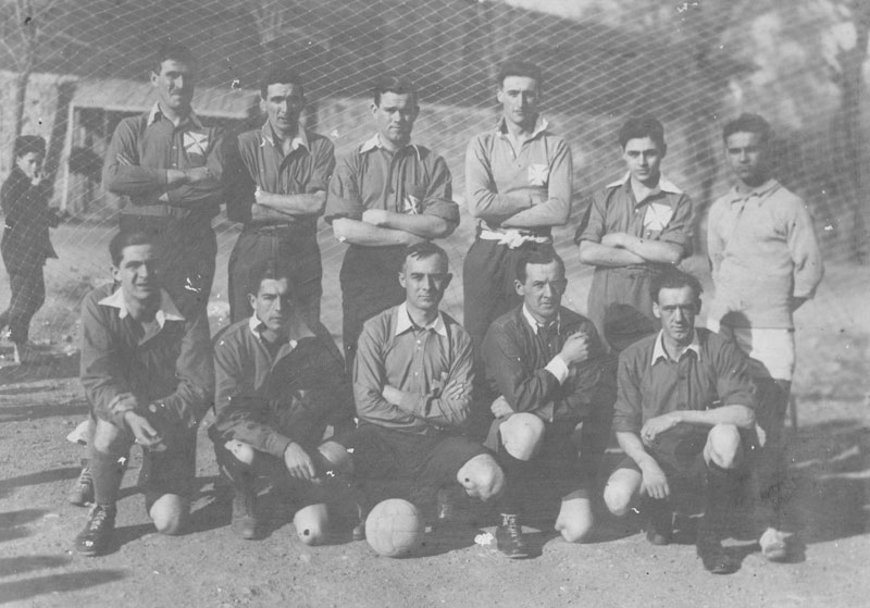 Smyrna Football Club 1910